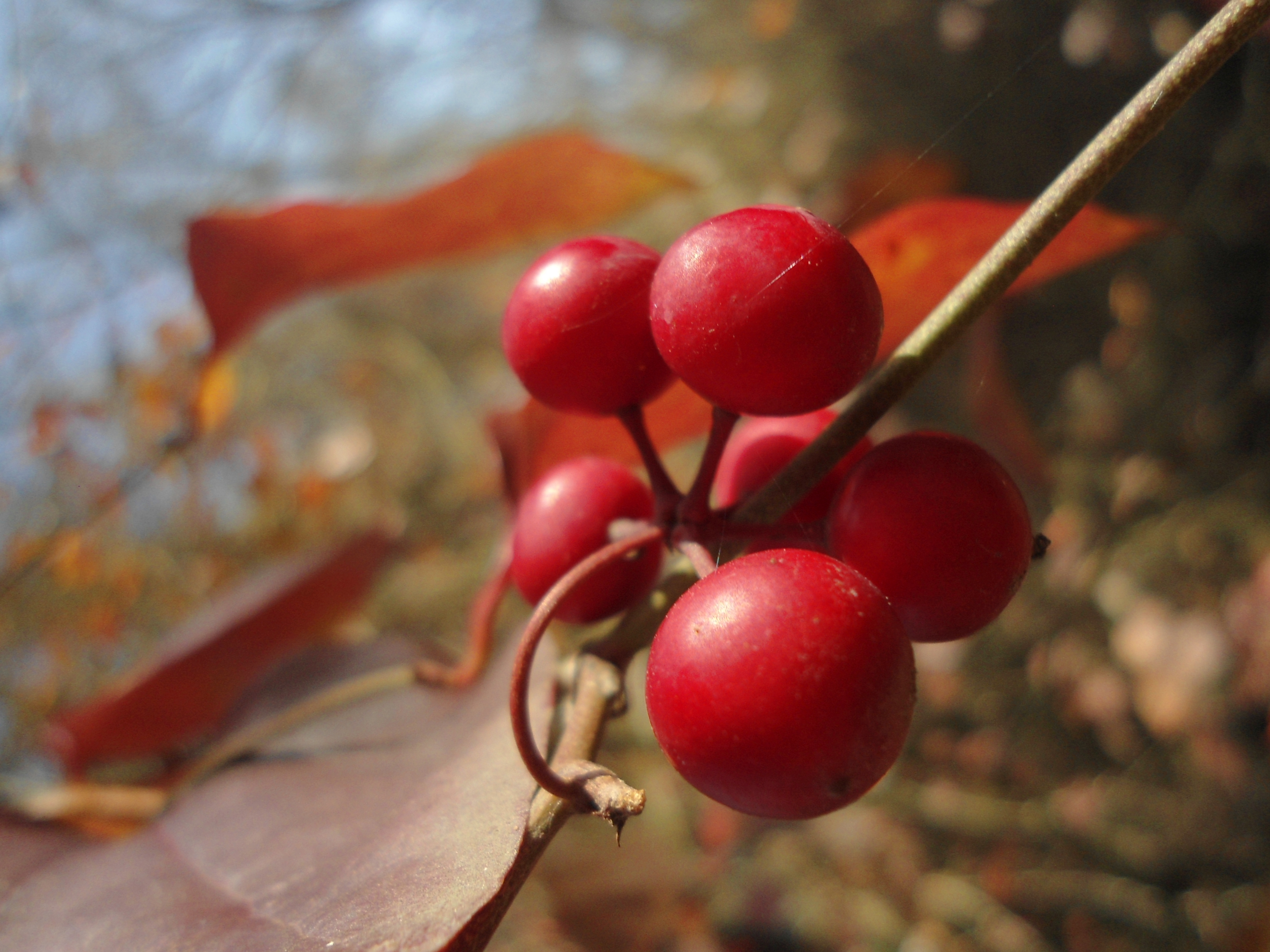 The fruits of Smilax excelsa.